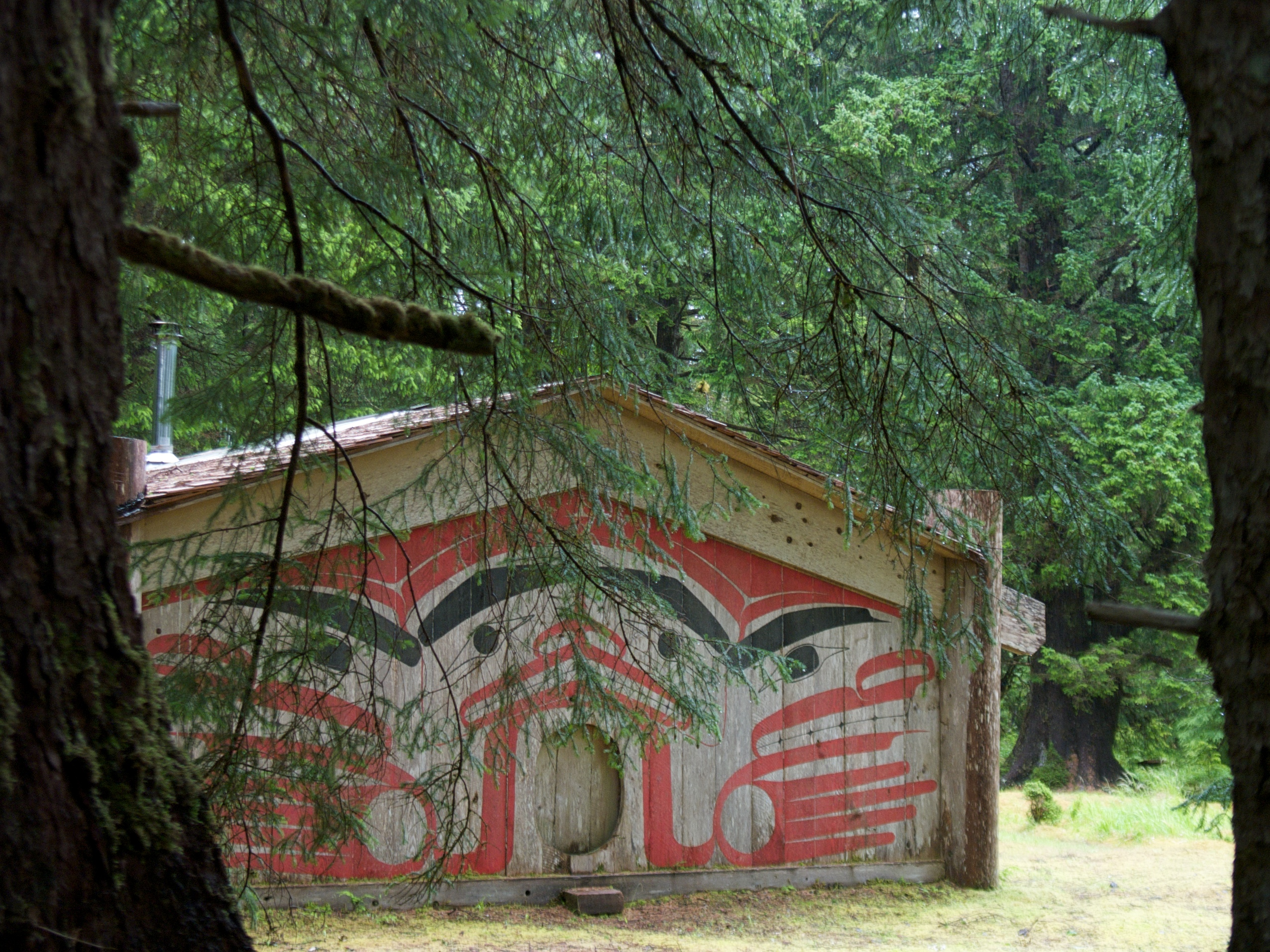 Looking Around and Blinking House, a longhouse at Windy Bay, Gwaii Haanas National Park Reserve, BC